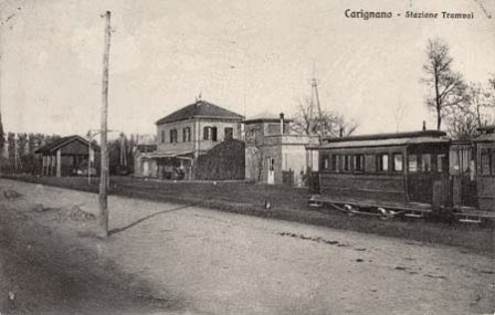 Carignano tram 1920